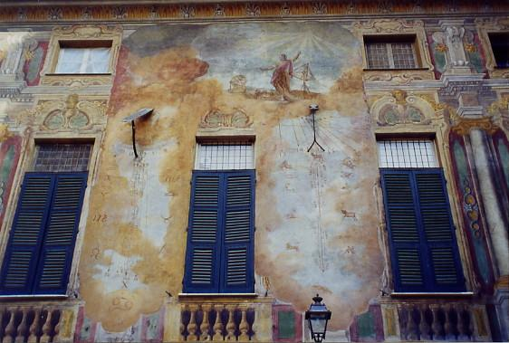 Sundials of Palazzo Negroni.